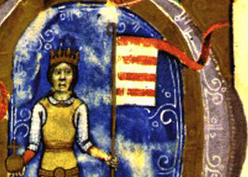 Illuminated miniature of King Béla III of Hungary